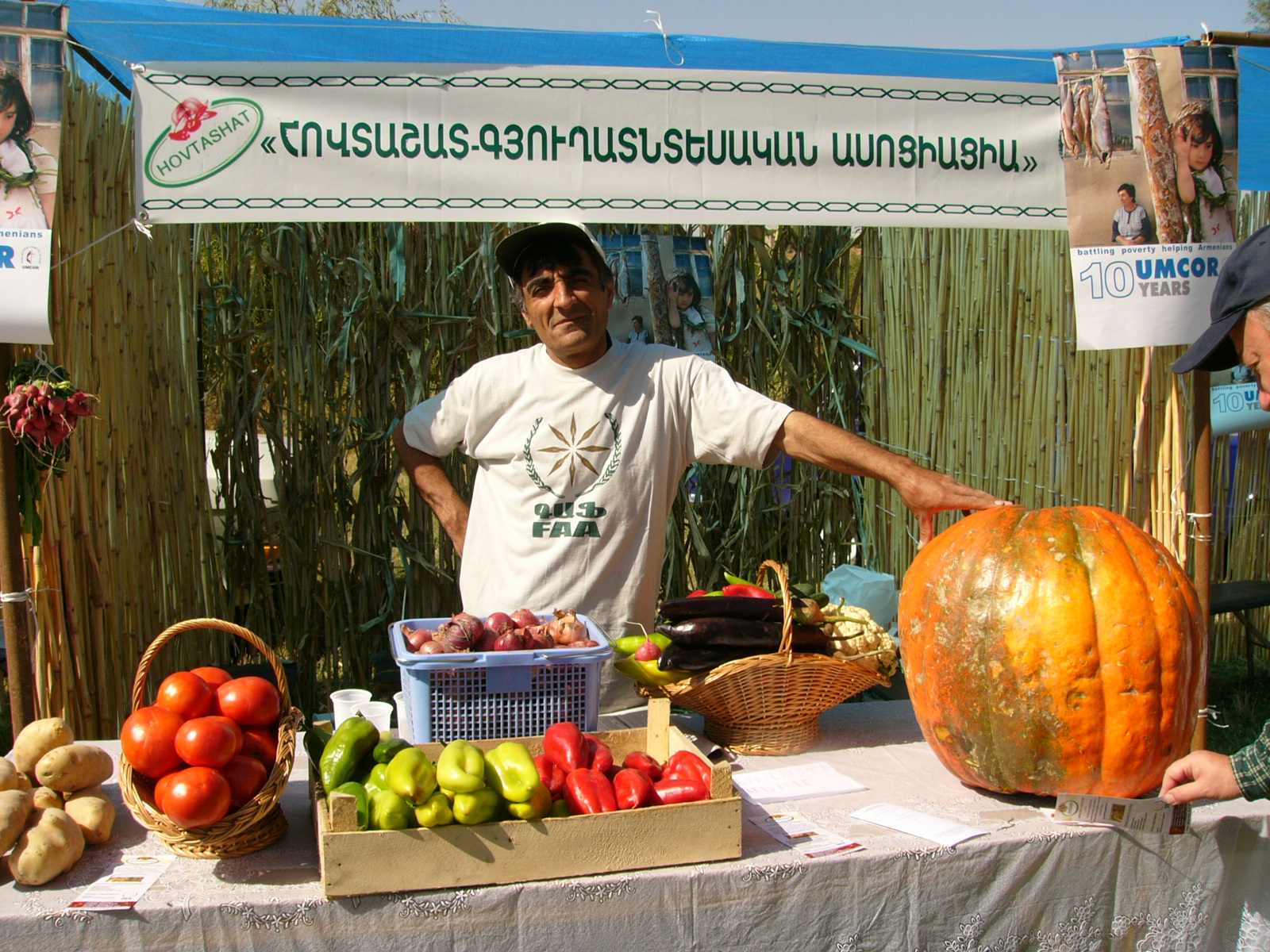 An agricultural cooperative representative presenting products.